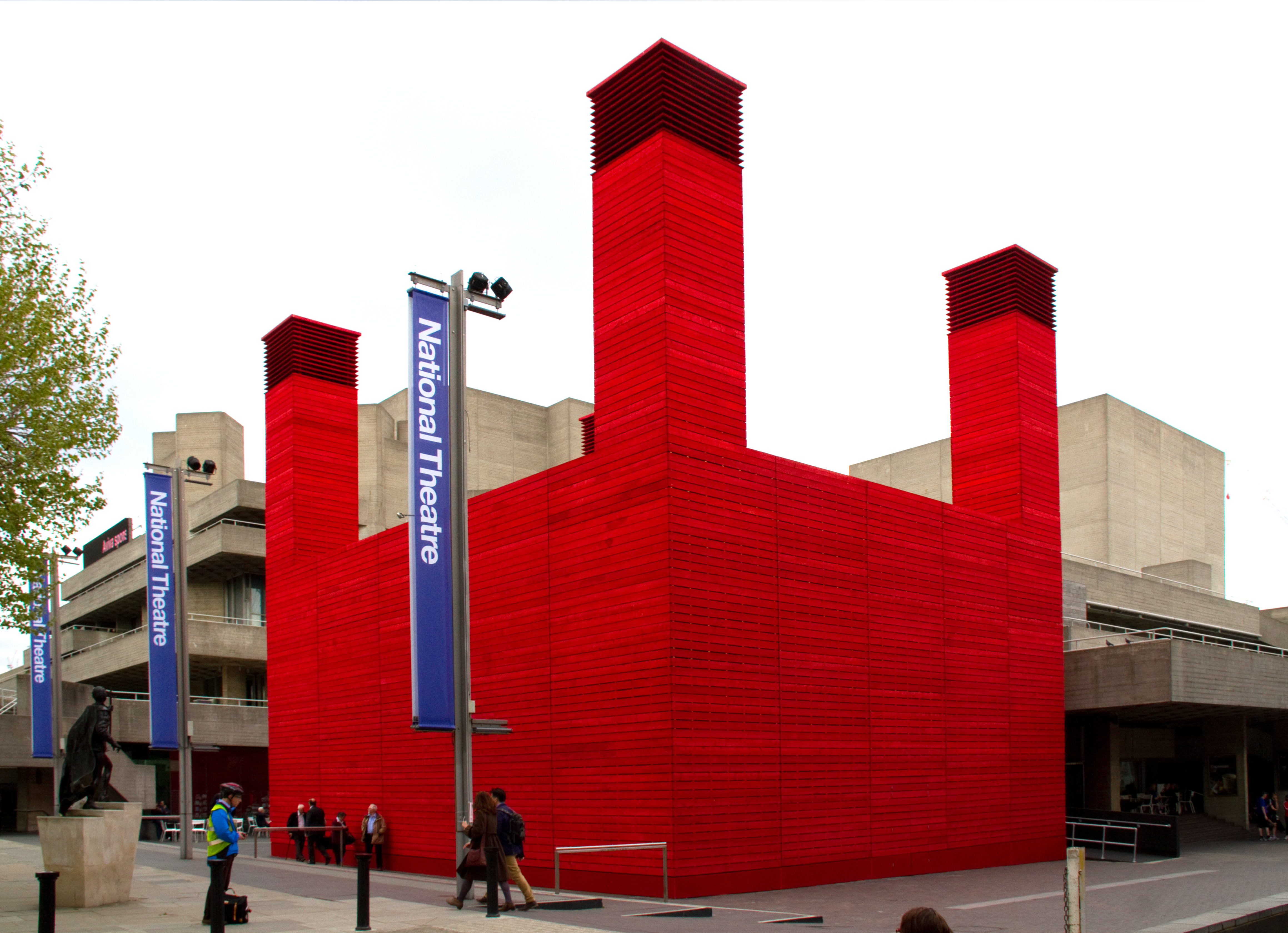 The Red Shed National Theatre